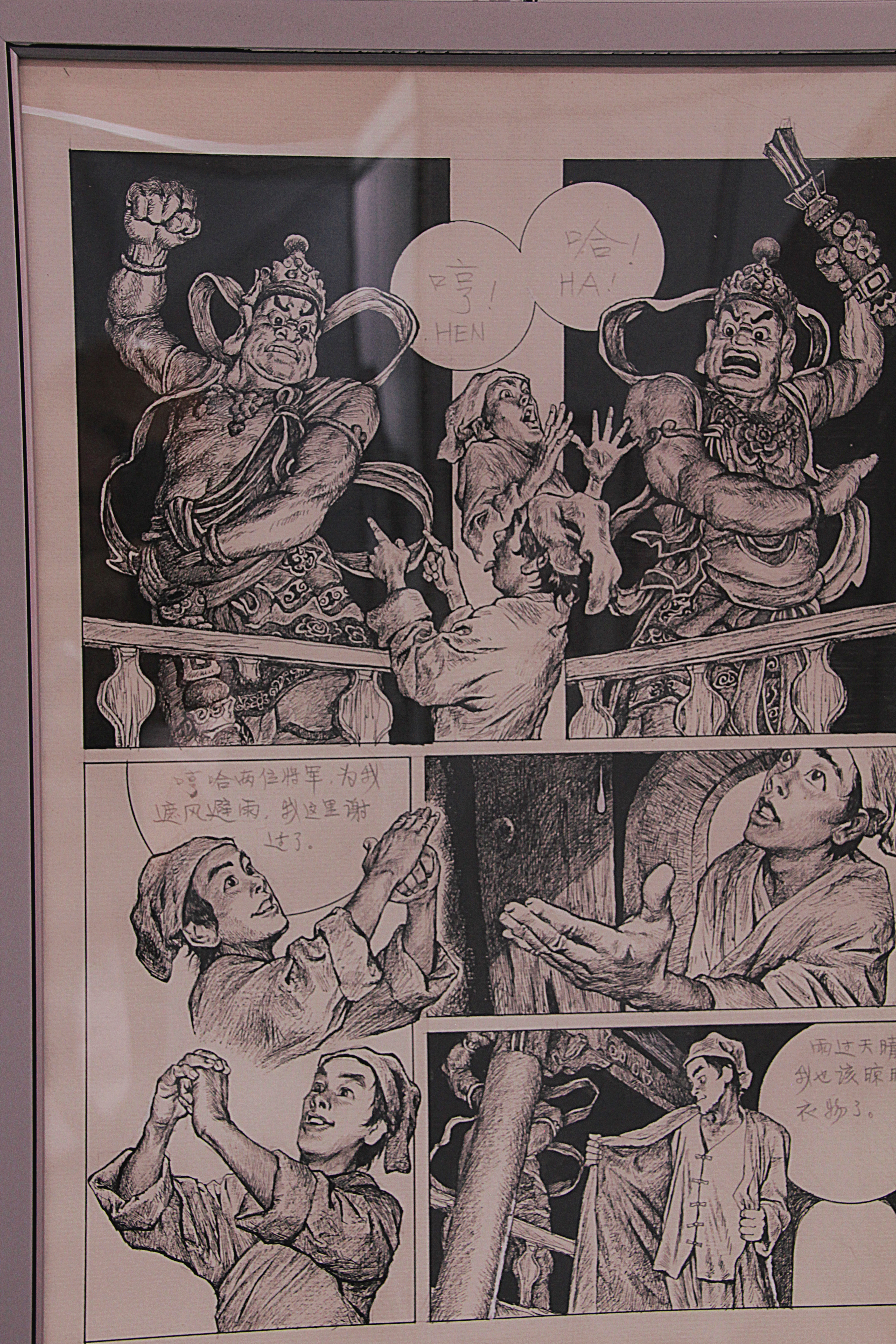 Beijing Total Vision, based in Beijing, is trying to make the connection between Europe and China, through comics. Ning Wang is the founder and was in Brussels with Zao Dao.